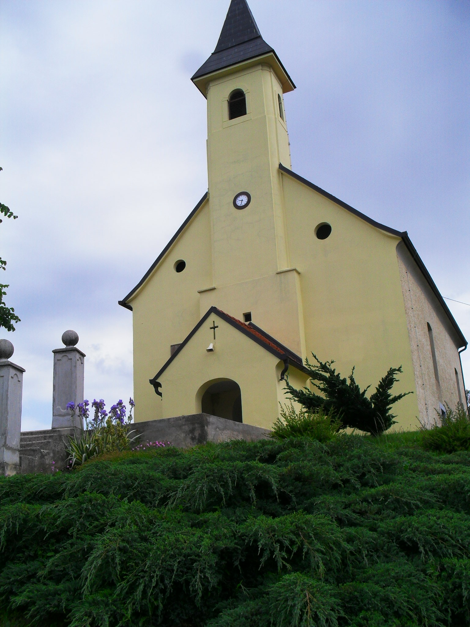 The Chapel of St. Margareth in Kapelščak, near Vrhovljan, Međimurje Croatia